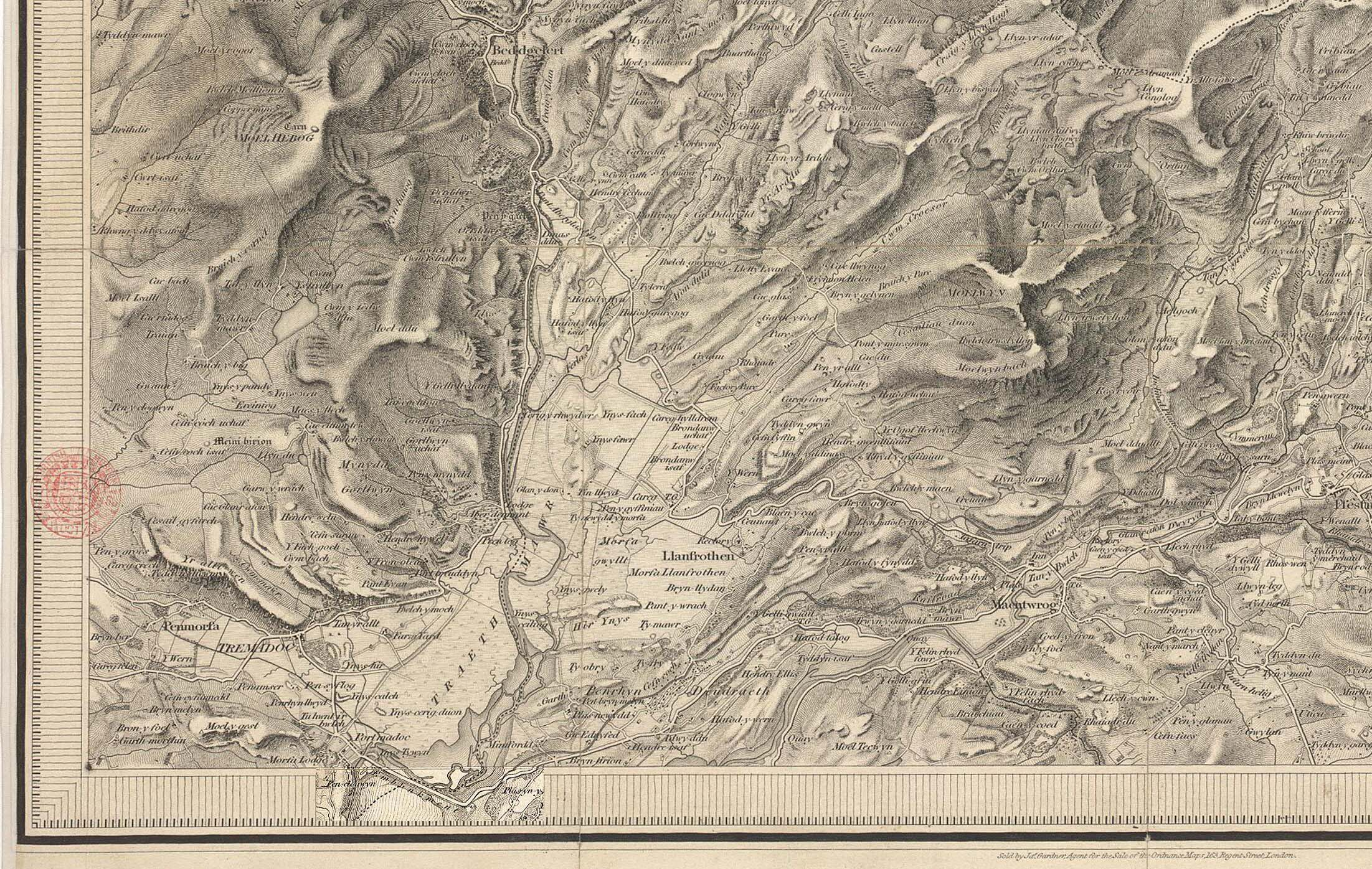 One-inch map showing route of Festiniog Railway abiout 1840. This is a composite of one-inch sheet 75ne (published1840) with an inlay from sheet 75se (published 1838). It shows the inclined plane that was used until the Moelwyn tunnel was bult in 1842